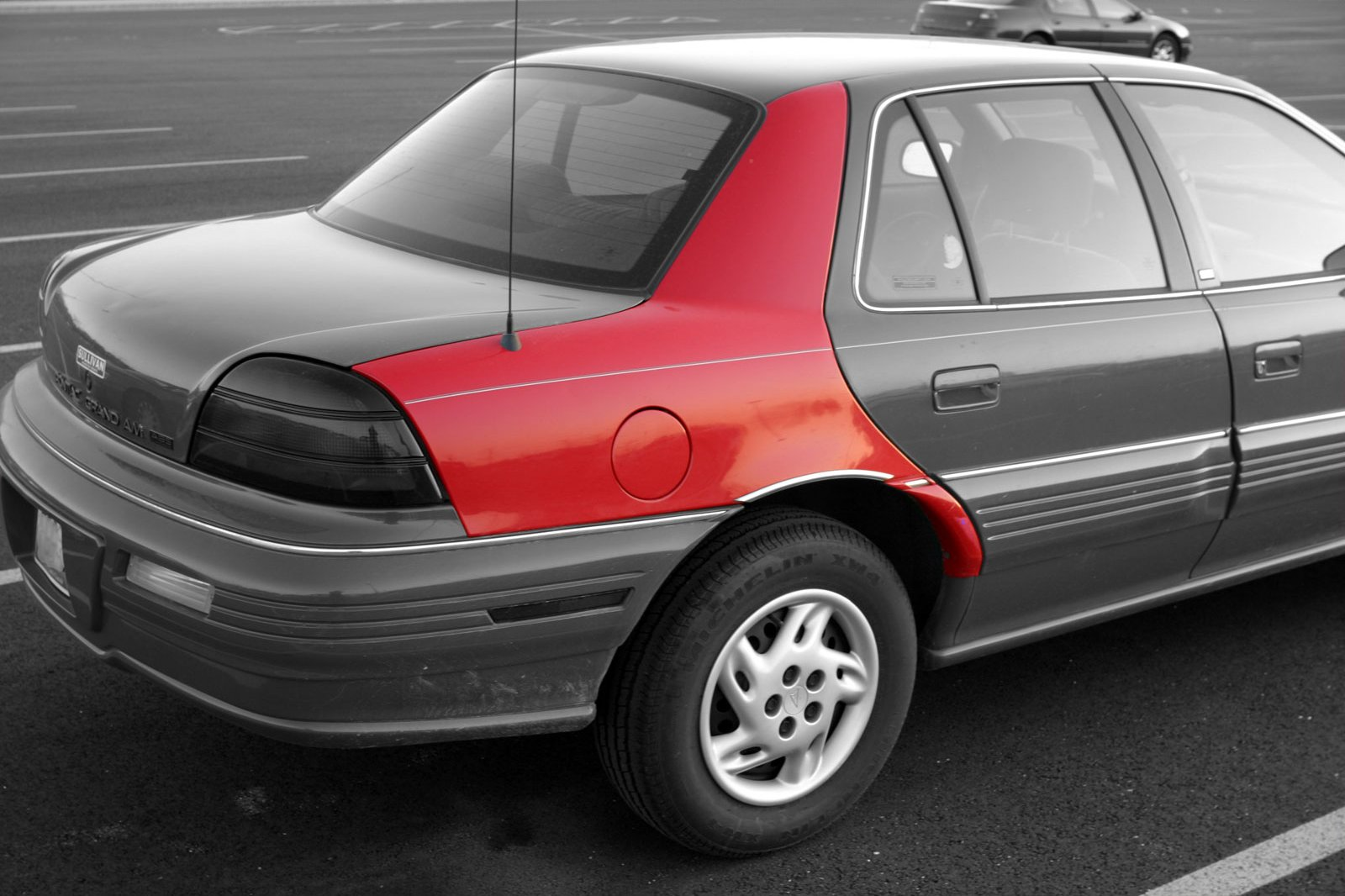 Rear quarterpanel on a Pontiac Grand Am.(the red paint is the stock color as-captured, the gray bits have been desaturated)